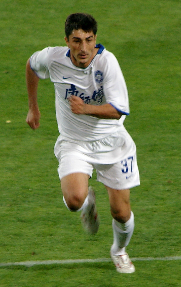 Zaynitdin Tadjiyev is an Uzbek footballer who currently plays for Shurtan Guzar.